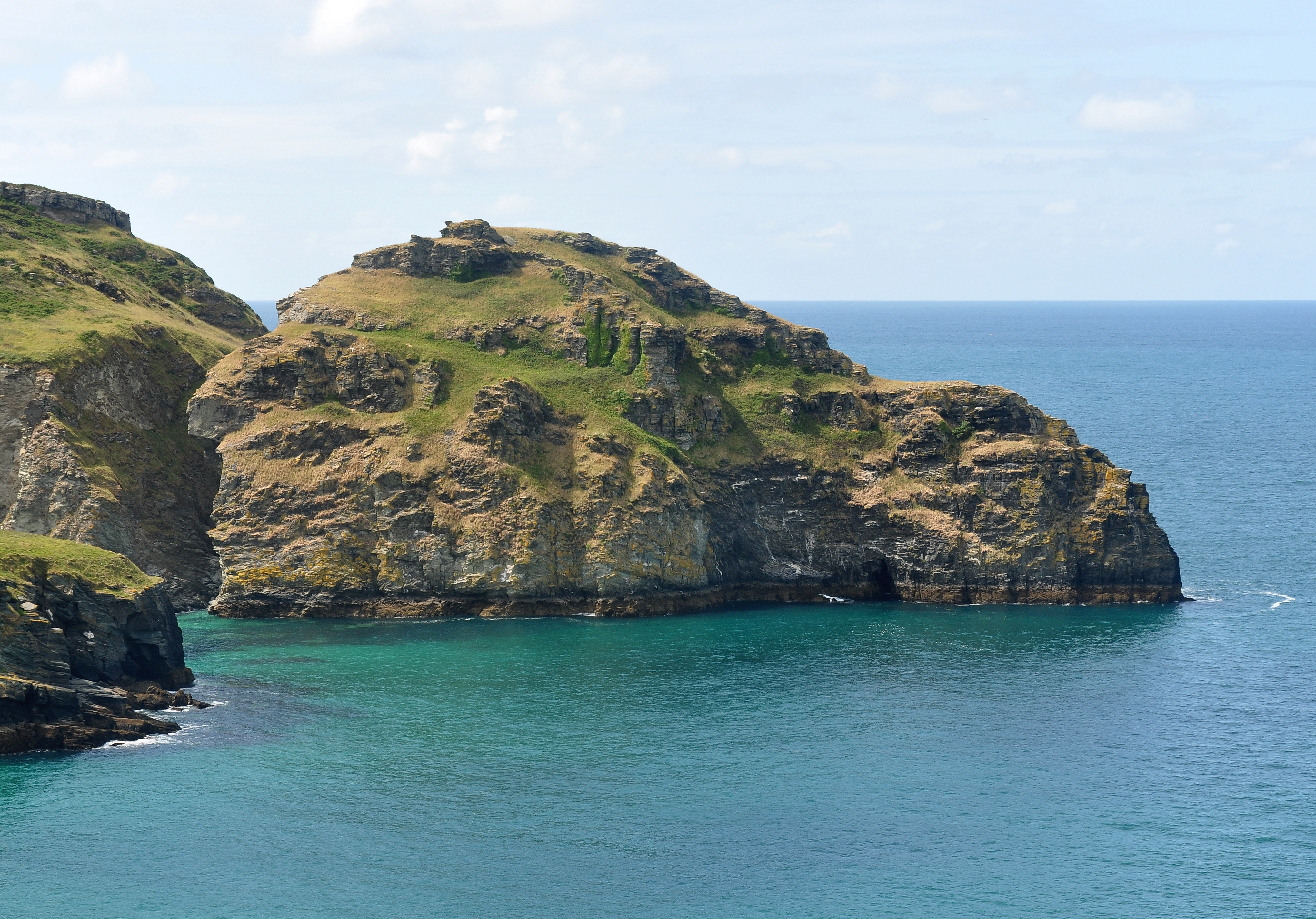 Lye Rock